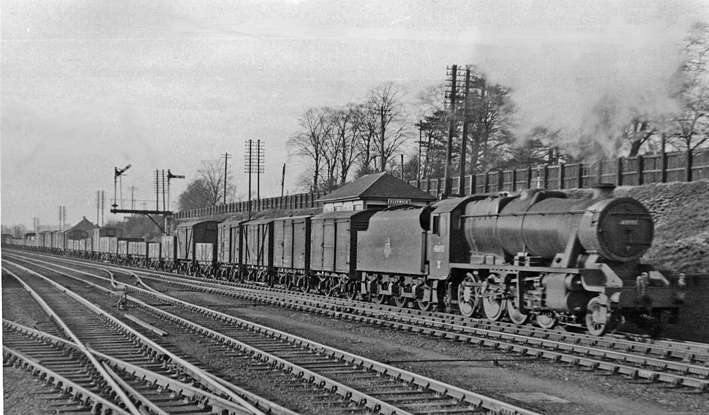 Up freight at Flitwick. View NW from Flitwick Station, towards Bedford, Leicester and the North; ex-Midland Main Line, London St Pancras - Bedford, Leicester, Derby/Nottingham, Sheffield etc. The Class F freight is headed by Stanier 8F 2-8-0 No. 48492